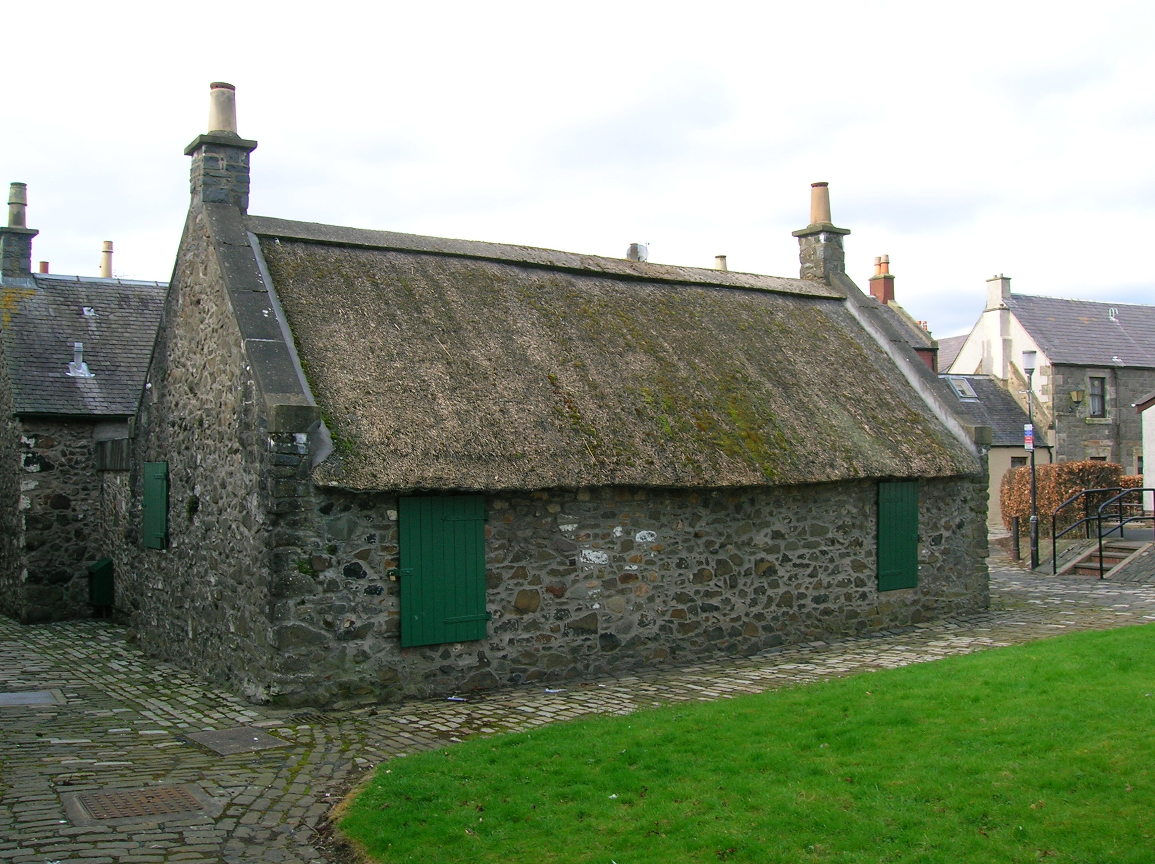 The Heckling Shop in Irvine where Robert Burns worked 1781-1782. North Ayrshire, Scotland.